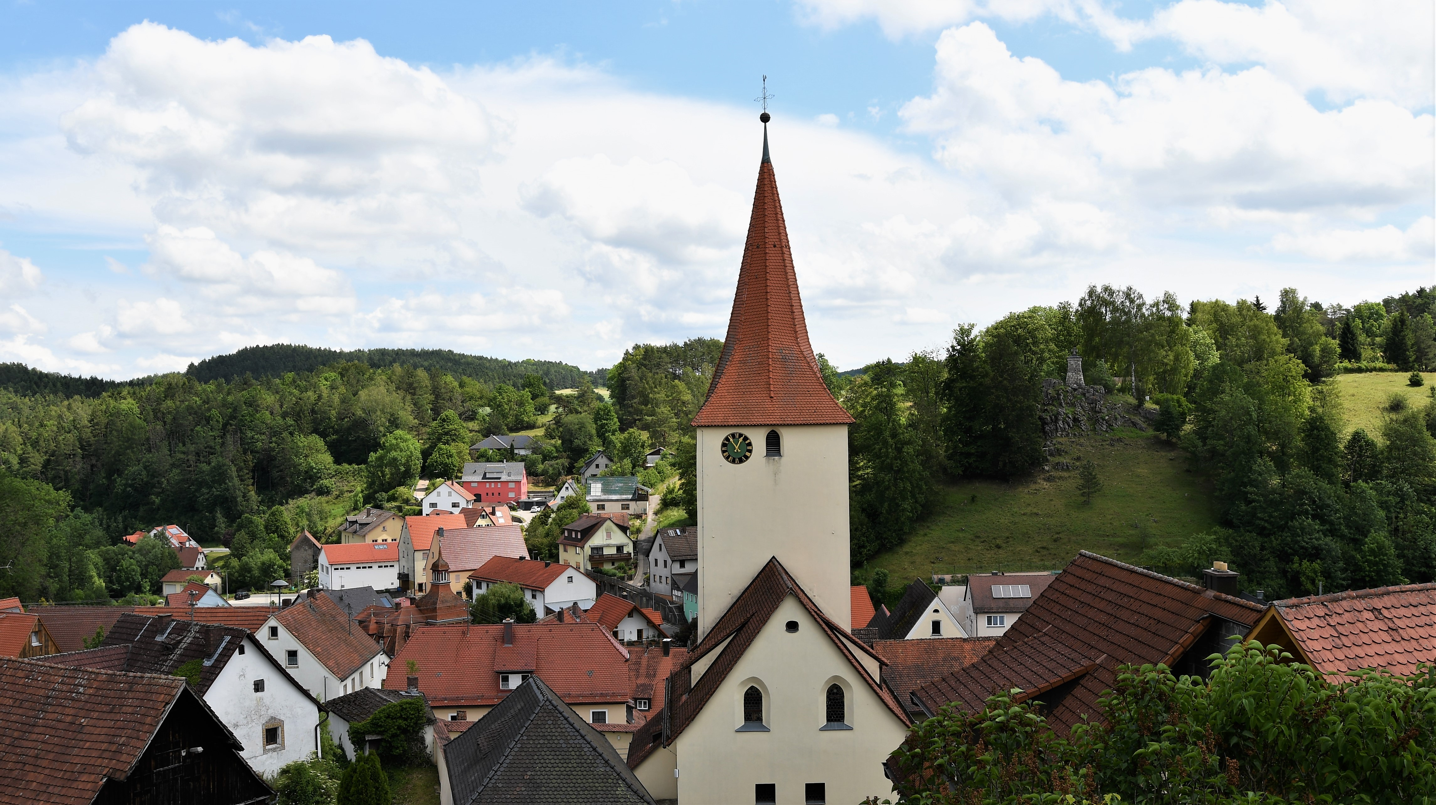 Buildings in Alfeld